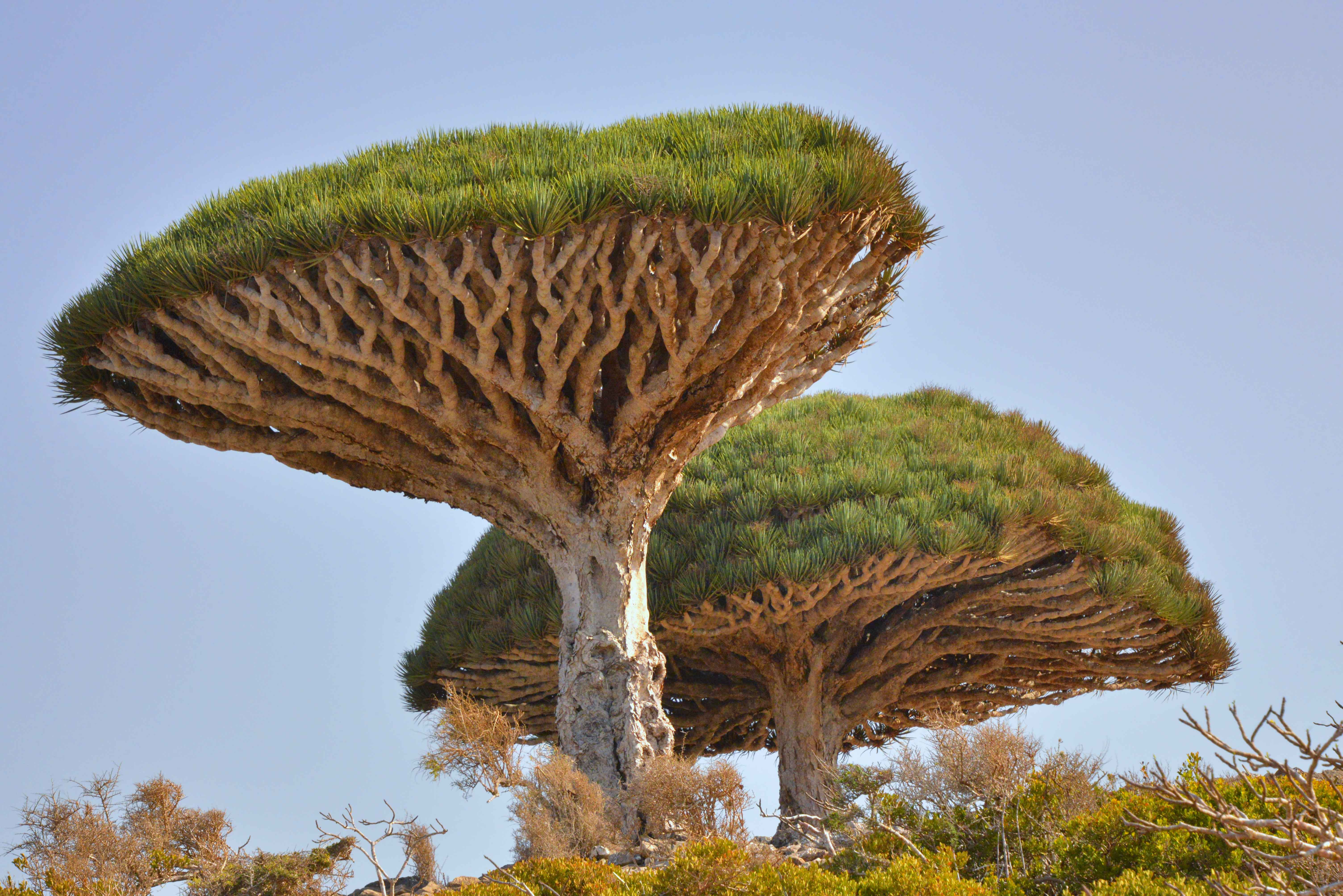 Dragon's Blood Tree (Dracaena cinnabari) — endemic to/on Socotra island, Yemen.